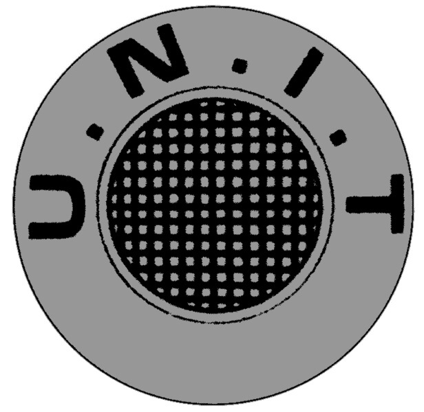 The logo of British paramilitary organisation U.N.I.T, as featured in the series Doctor Who.